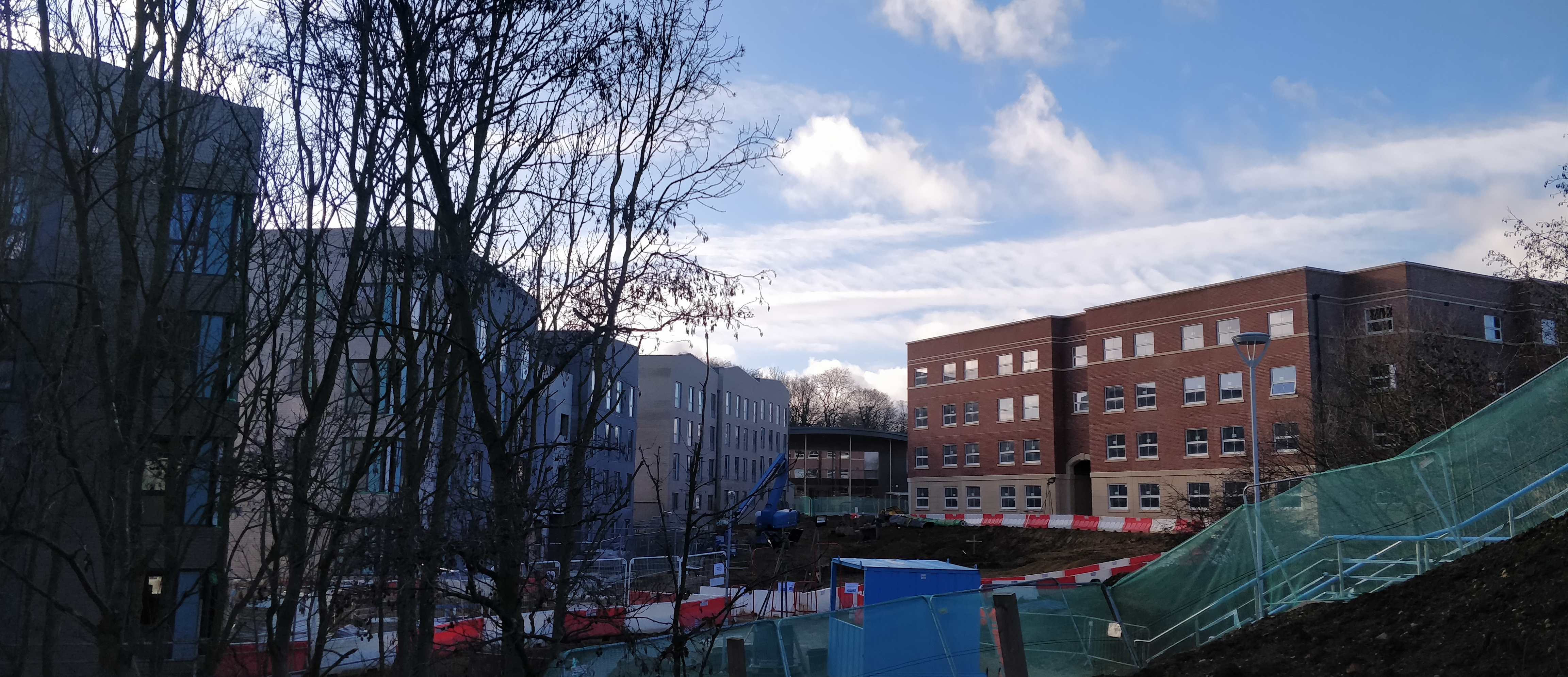 South College, Durham and John Snow College, Durham, under construction in January 2020